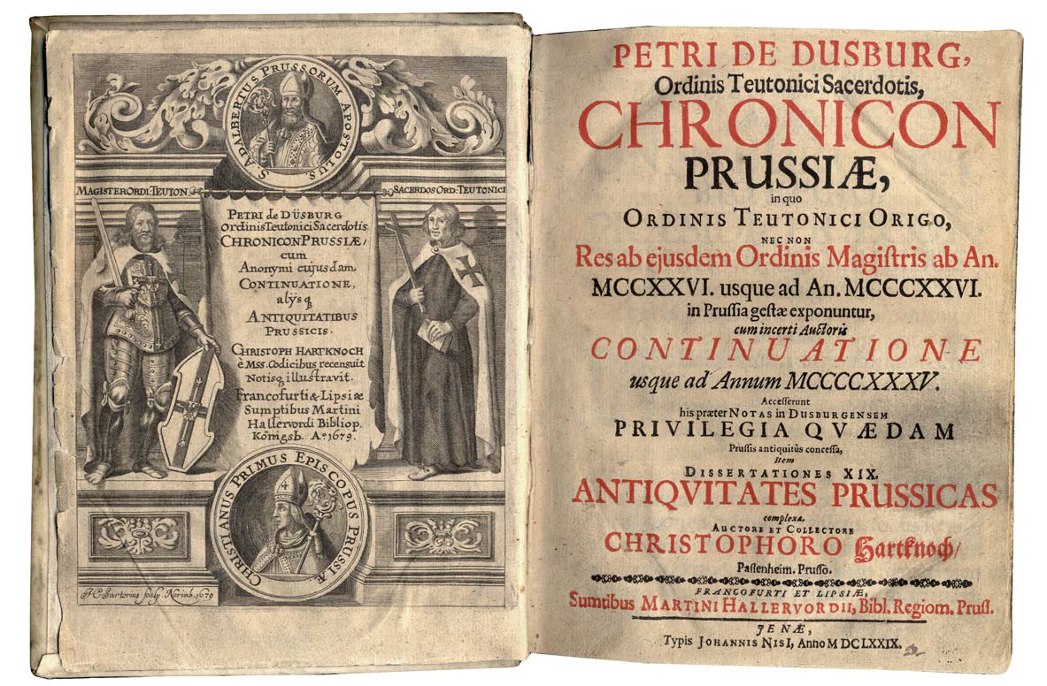 Cover of Chronicon Prussiae, in quo Ordinis Teutonici origo nec non res ab eiusdem ordinis magistris… exponuntur…